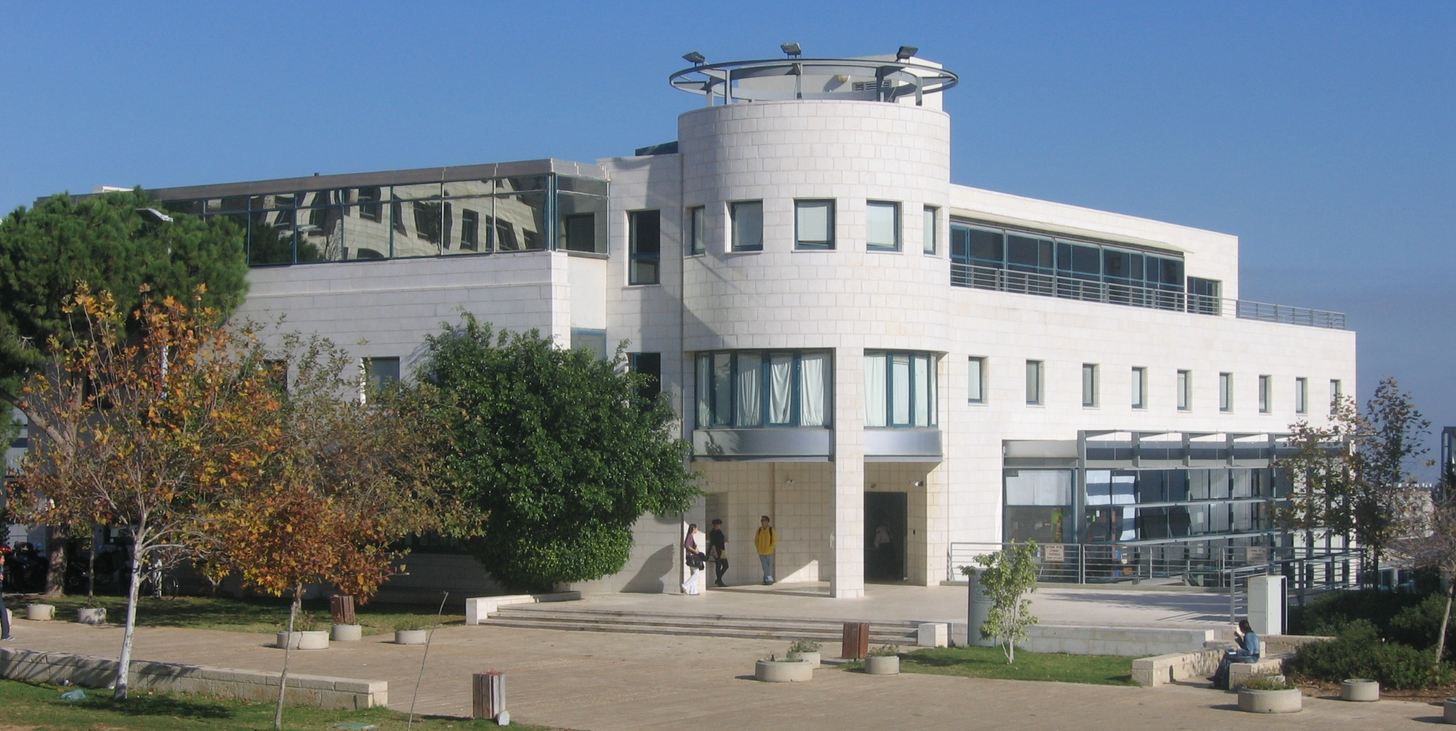 The Architecture & City Planning Faculty building in the Technion, in Haifa, Israel. Named after Sego.